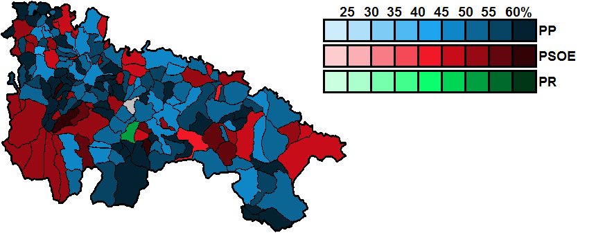 Most-voted party in La Rioja municipalities, showing vote share obtained, in the Spanish general election, 2008.